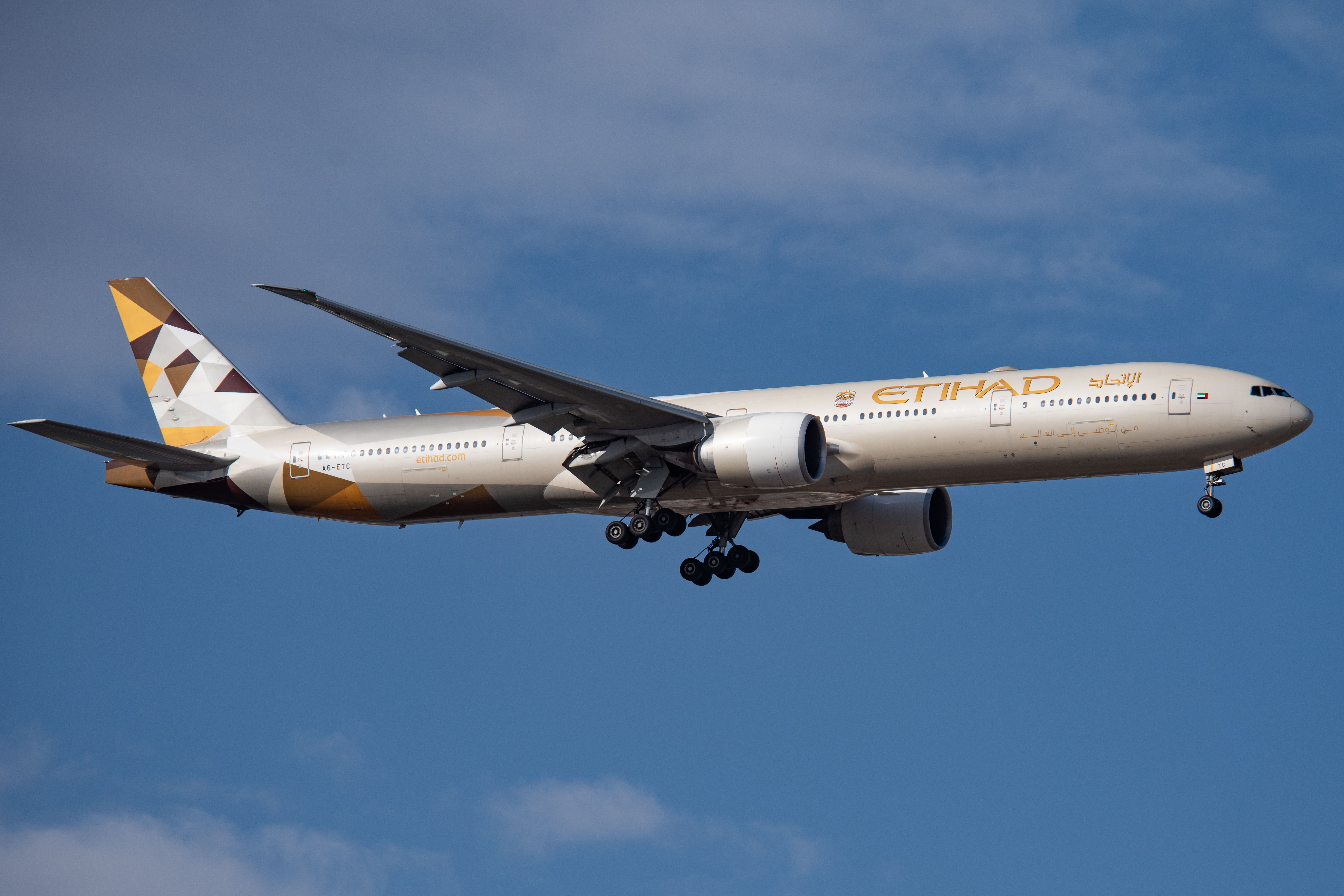 Etihad 888 from Abu Dhabi, temporarily switched from 789 to 77W! Funny registration: an Audi A6 passing the ETC at a toll plaza?